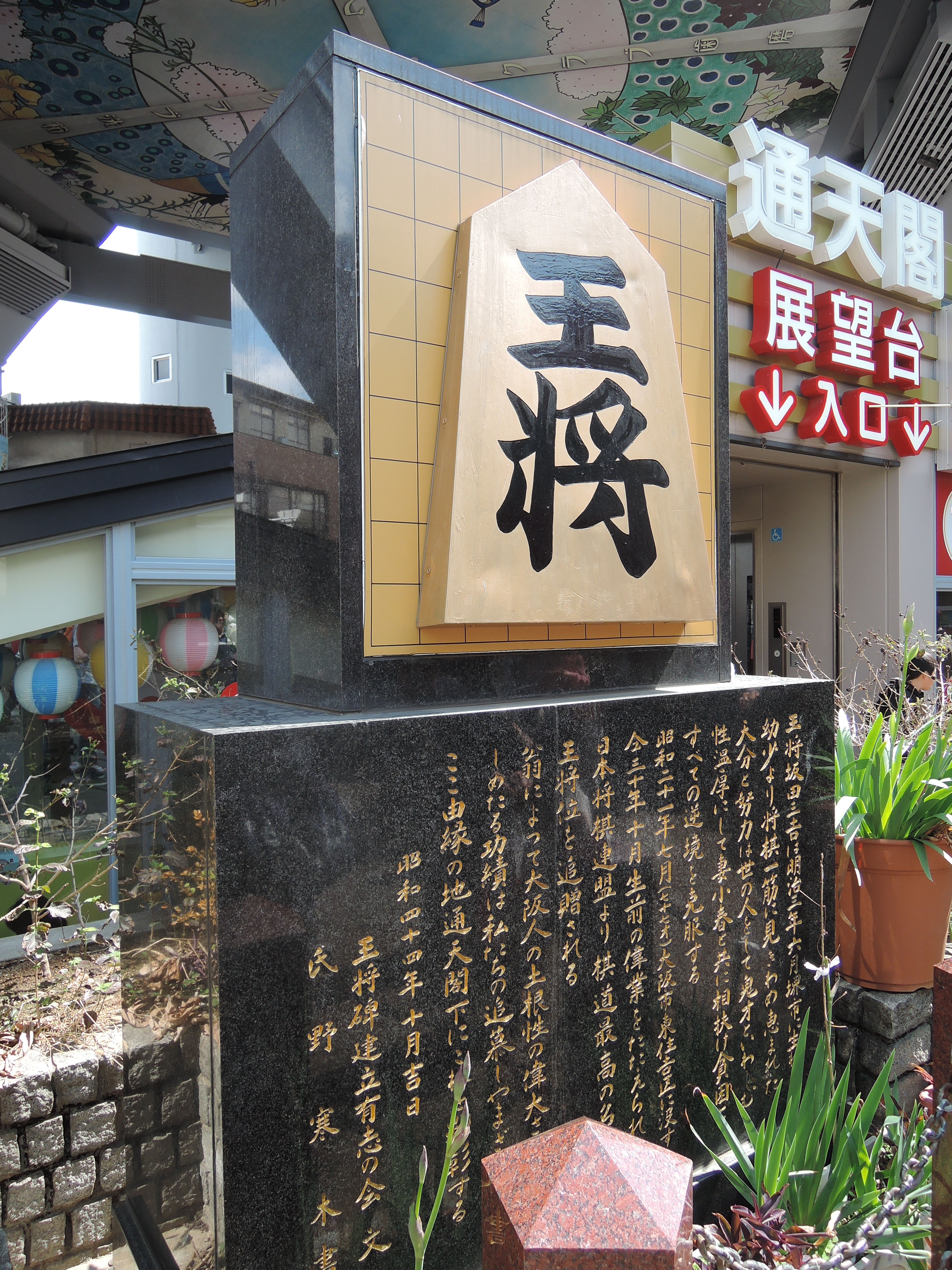 Ōshō-monument in honor of Sankichi Sakata (Shogi player). (Tsūtenkaku in Osaka, Japan)